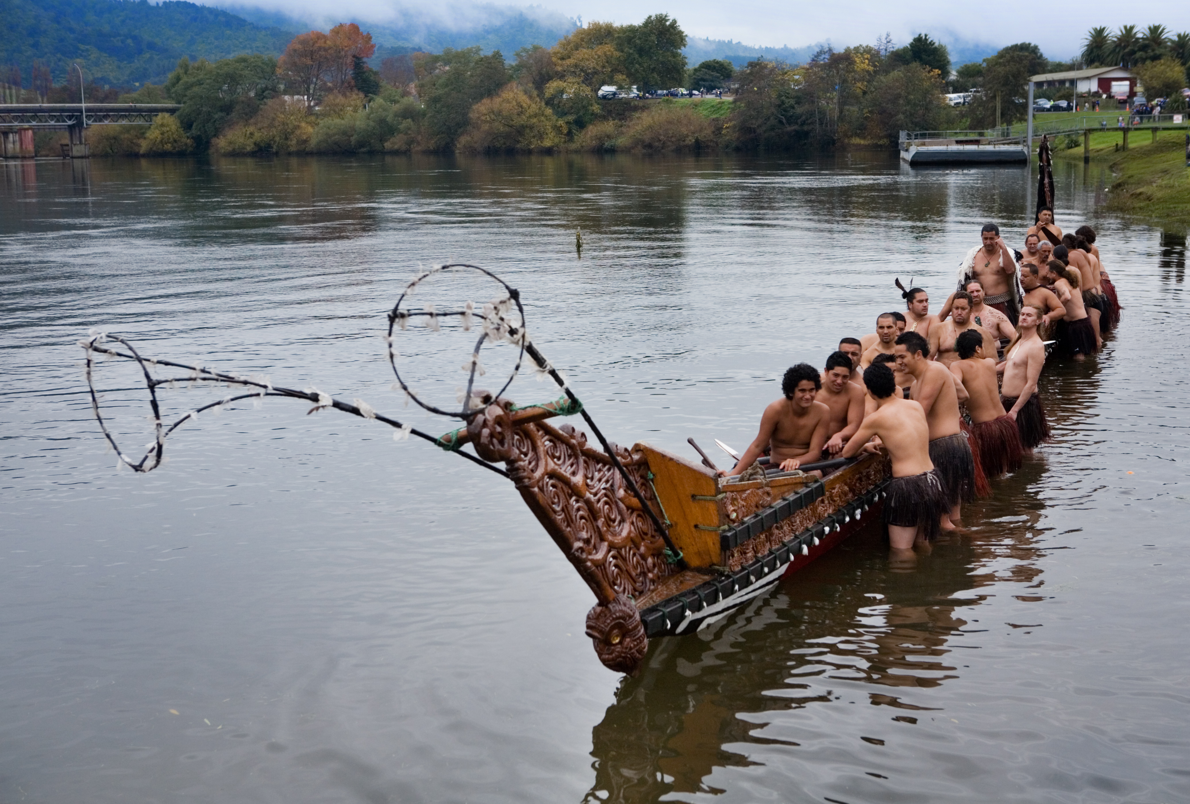 New Zealand Maori rowing ceremonial coreography